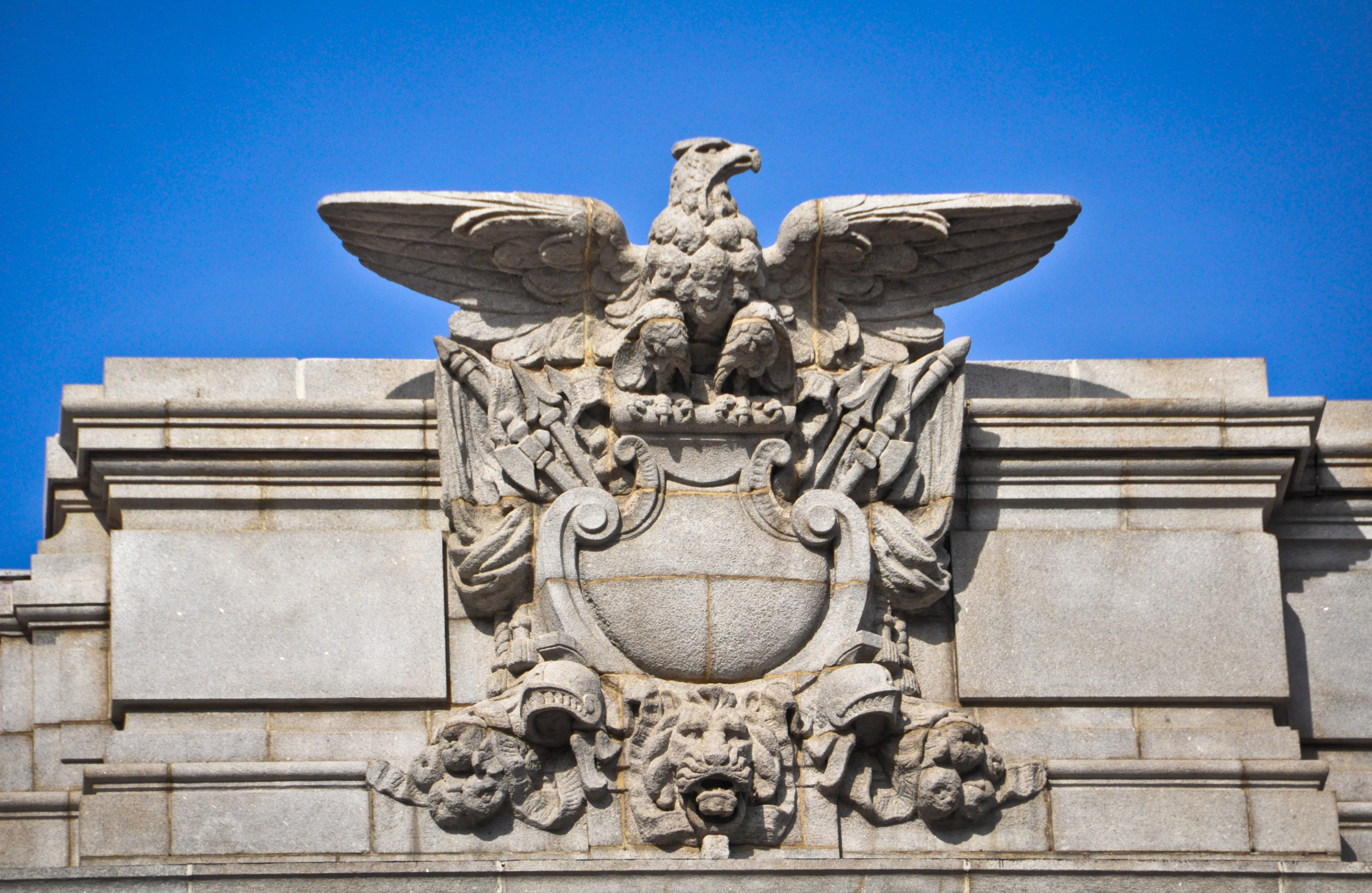 A decorative stone eagle atop the Howard M. Metzenbaum United States Courthouse in downtown Cleveland, Ohio.